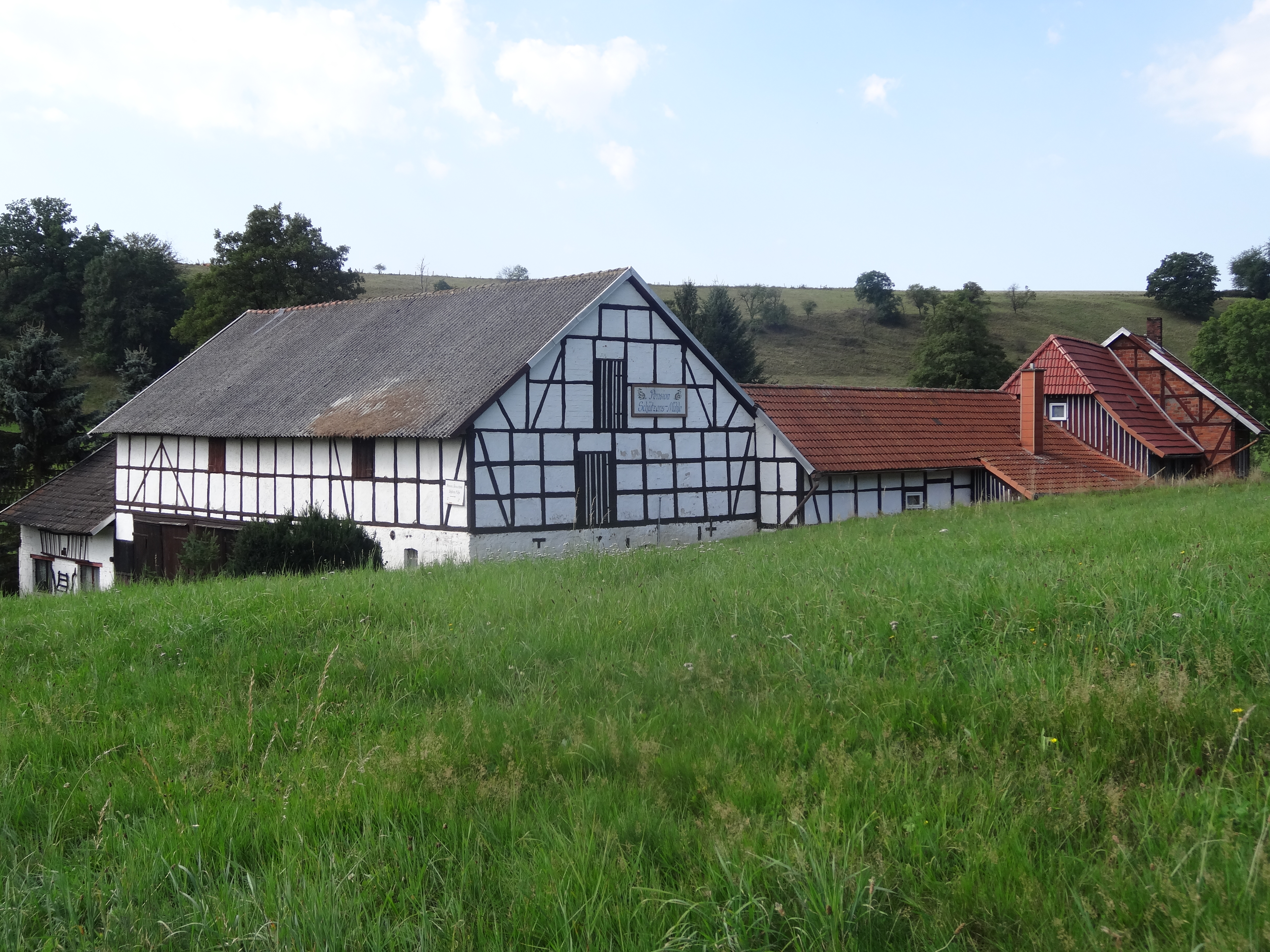 Schützensmühle near Sägemühle, Thuringia, Germany